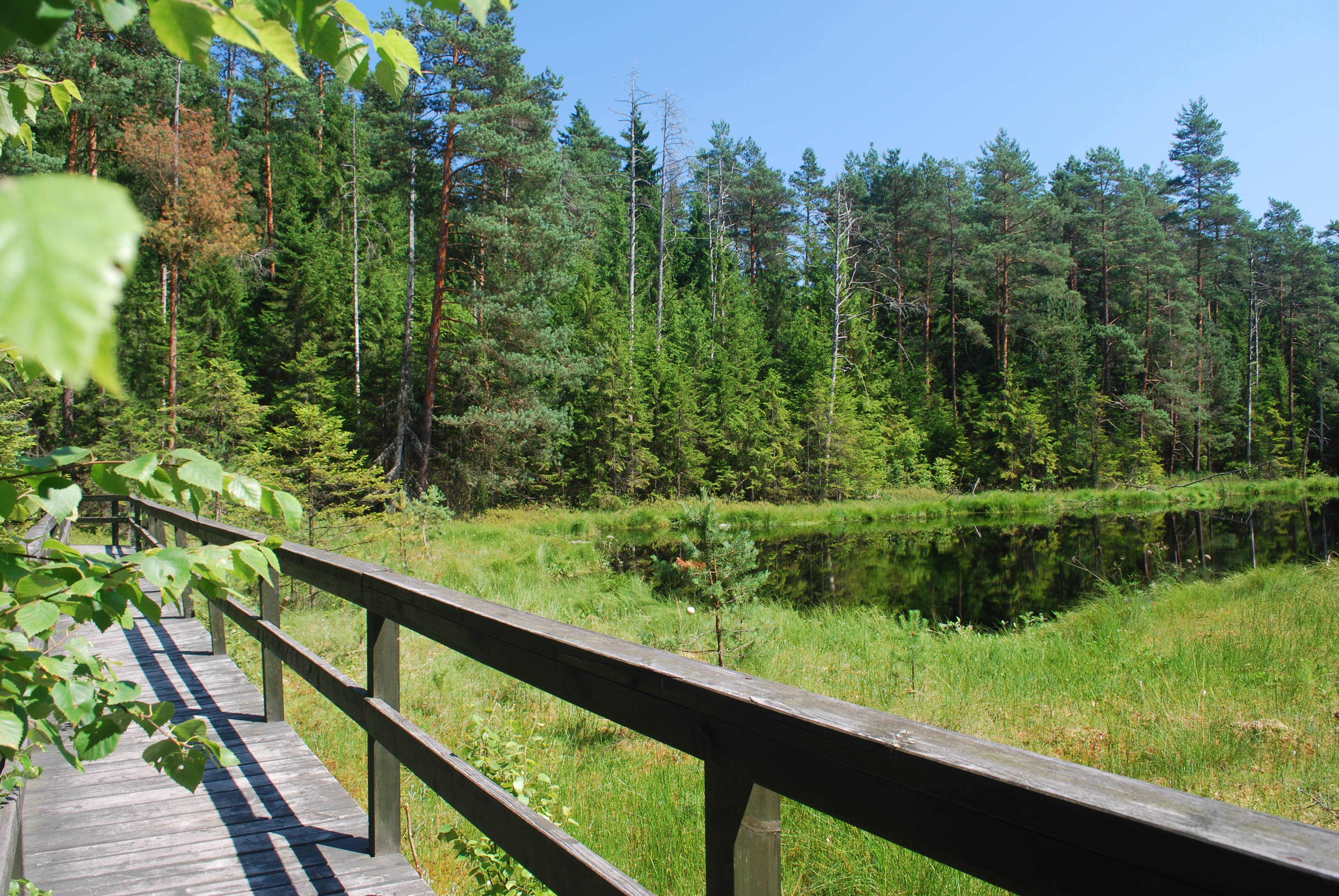 This photo from Podlaskie Voievodeship was taken during Polish Wikiexpedition 2009 set up by Wikimedia Polska Association. The making of this document was supported by Wikimedia Polska. Ścieżka edukacyjna "Suchary" w Wigierskim Parku Narodowym - suchar nr. 3 i fragment kładki nad bagnem.